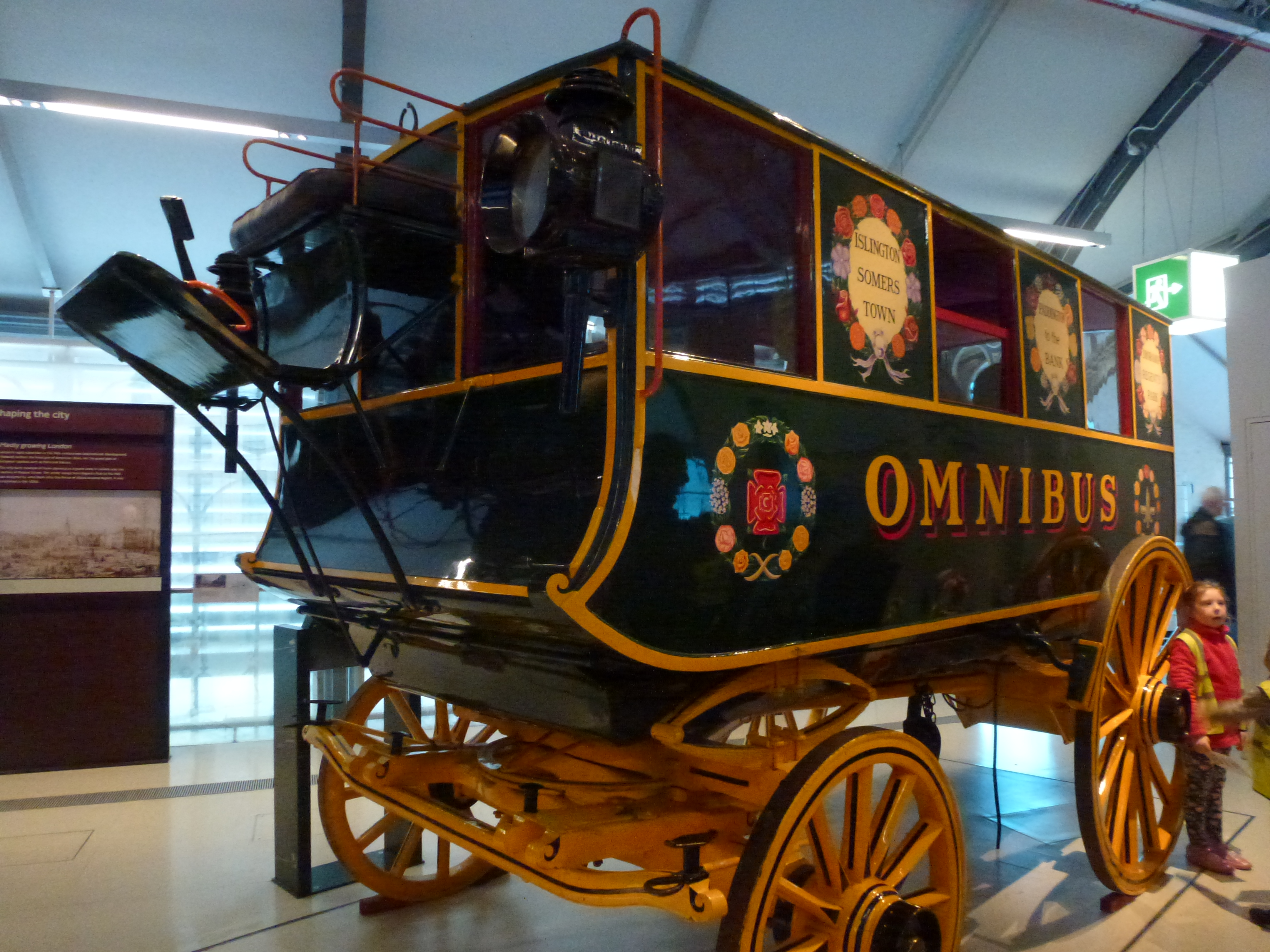 The original London Transport of the 19th century, in the days before front (or rear) engine buses came into existence, they were carriages hauled by horses. Seen here at the London Transport Museum in Covent Garden on Thursday 4th April